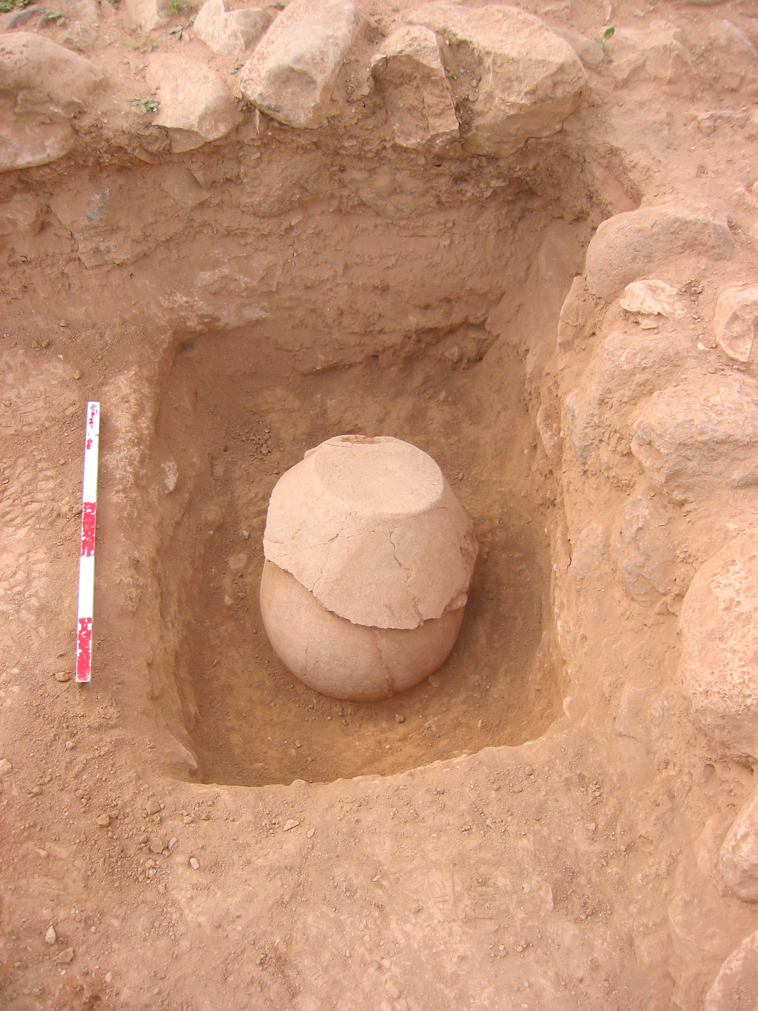 Fatzael 2 - Chalcolithic Archaeological site in Jordan Valley פצאל 2 - אתר ארכאולוגי מהתקופה הכלקוליתית - האתר שוכן בבקעת הירדן ליד היישוב פצאל This work is free and may be used by anyone for any purpose. If you wish to use this content, you do not need to request permission as long as you follow any licensing requirements mentioned on this page.